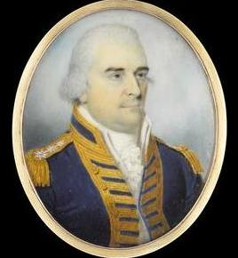 Portrait of Vice Admiral Charles Buckner